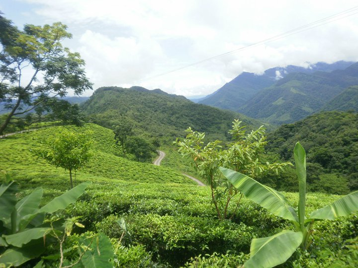 FK Tea Estate